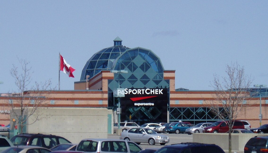 The Place D'Orleans shopping mall in Ottawa, Ontario.